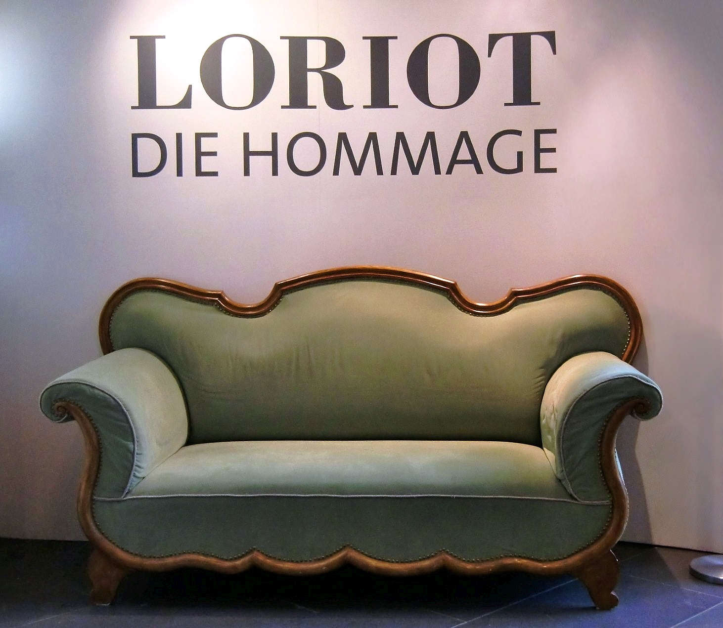 Couch in an exhibition about the work of German humorist Loriot (Vicco von Bülow) at the Haus der Geschichte (House of History) in Bonn. The exhibition took place from September 19, 2009 to February 28, 2010 and was produced by Deutsche Kinemathek – Museum für Film und Fernsehen in Berlin (see German press release at hdg.de). This couch (or an equal one) is a well known prop from Loriot's TV show Loriot.